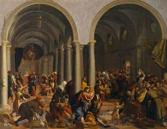 Christ driving the money-changers from the temple